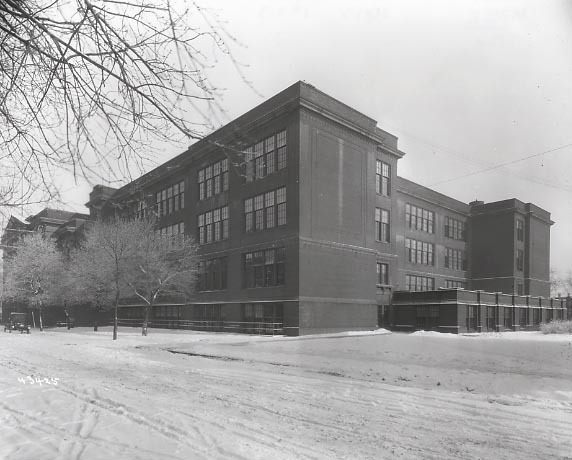 South High School, Cedar Avenue and Twenty-fourth, Minneapolis. 1923